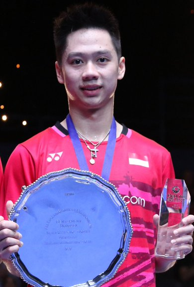 Kevin Sanjaya Sukamuljo and Marcus Fernaldi Gideon won the men's doubles title at the prestigious 2017 All England Open Badminton Championships